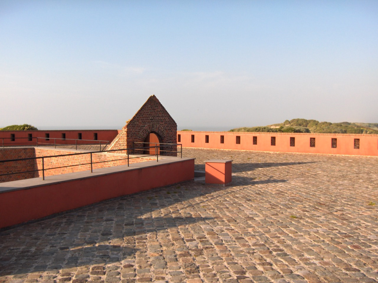 Roof of Fort Napoleon - Ostend, Belgium